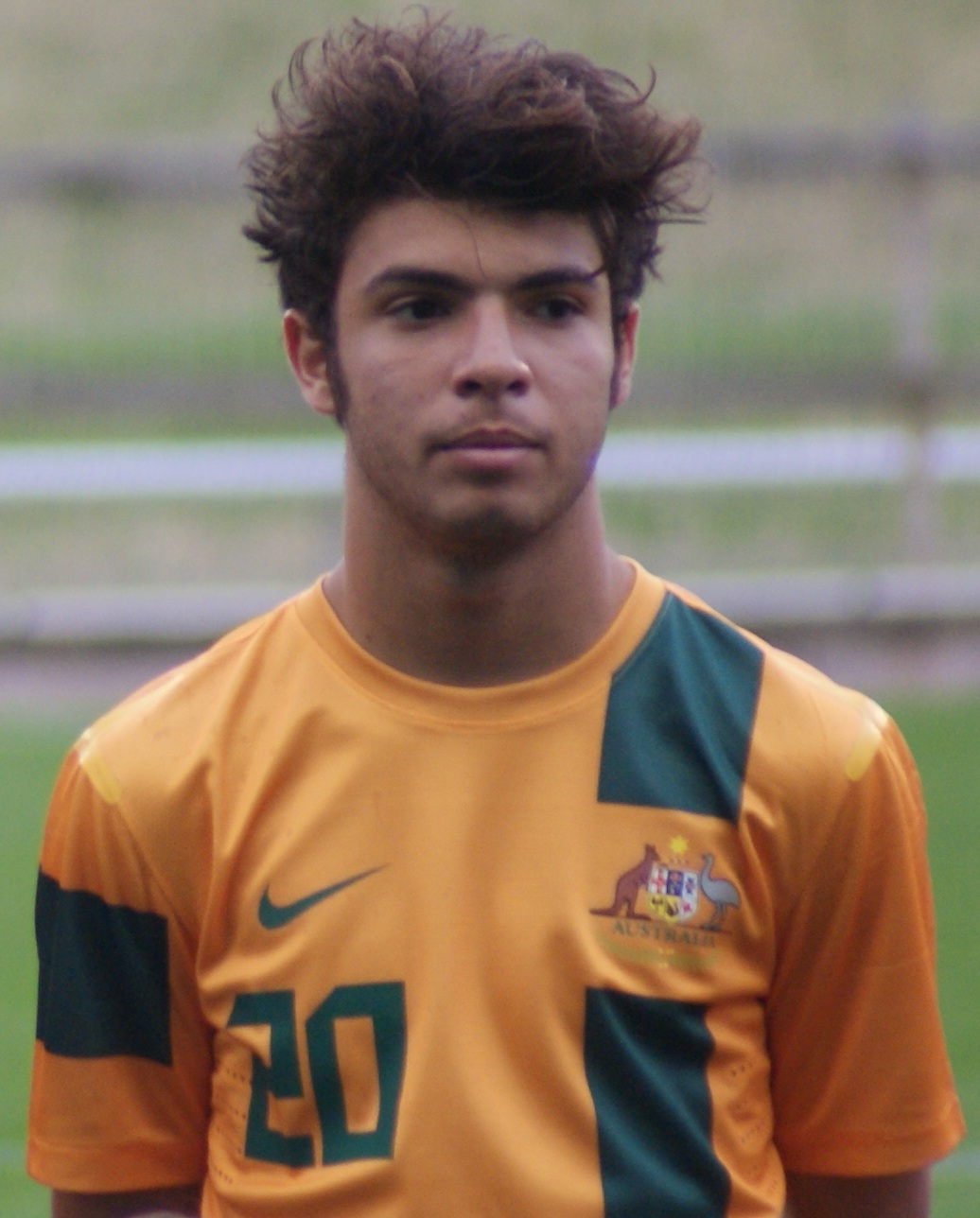 Young Socceroos vs New Zealand